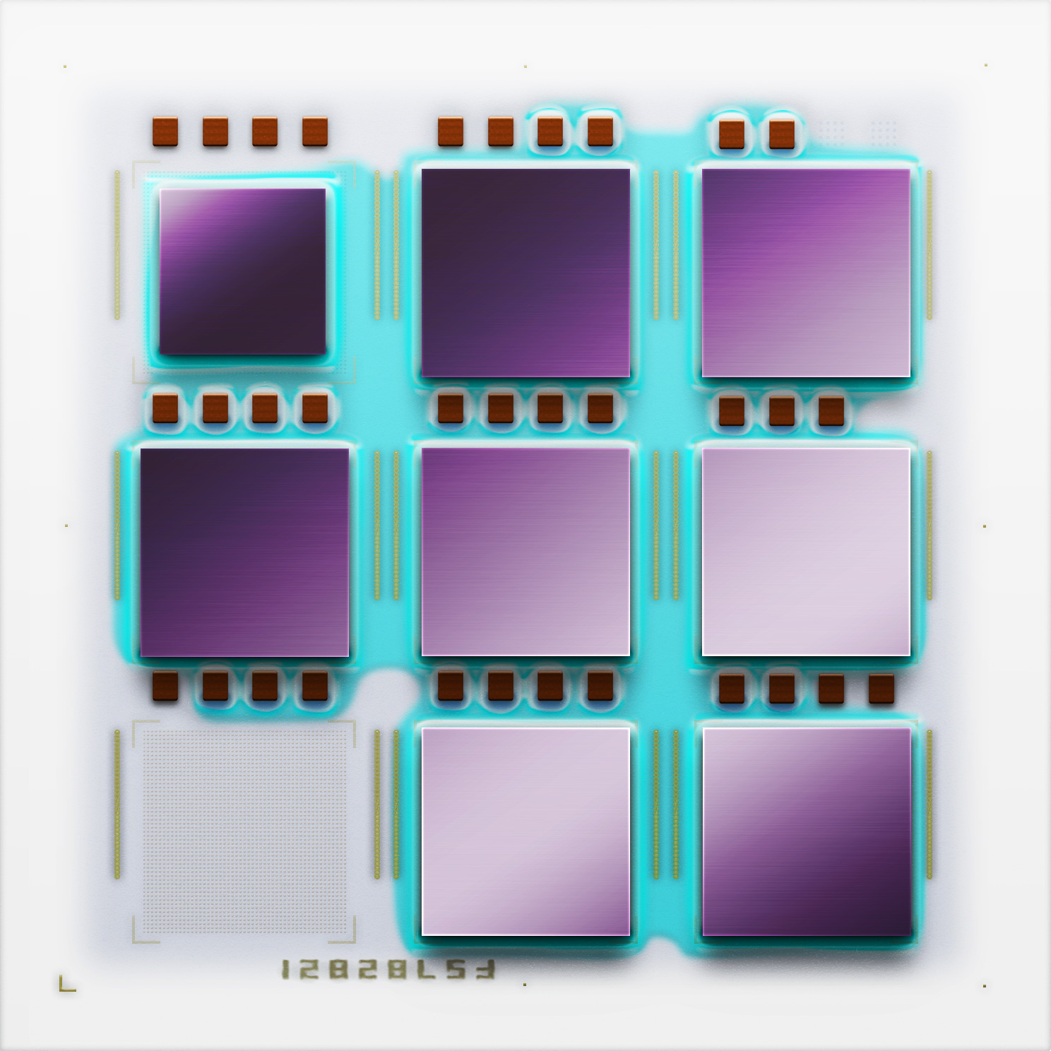 An illustration of an IBM POWER2 microprocessor multi chip module. The chips are manufactured on a 0.72 μm CMOS process mounted on a ceramic pin grid array substrate. Inspiration for the image comes from pictures on the Internet, IBM and privately owned photos.